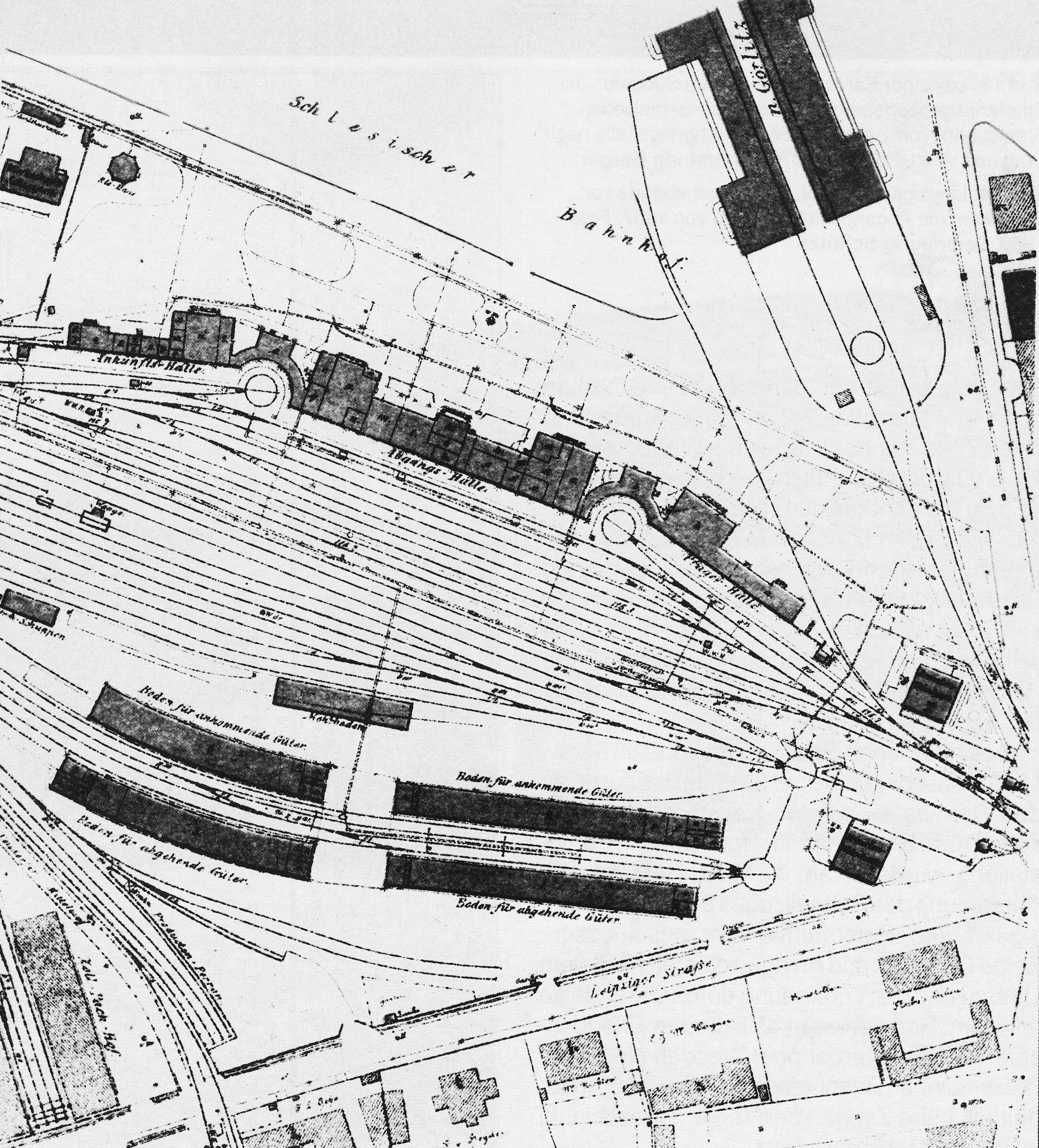 layout of station Leipziger Bahnhof in Dresden in 1877